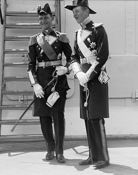 Prince Christian of Hesse-Philippsthal-Barchfeld (on the left) with Prince Heinrich XXXVIII Reuss during a visit to the United States in 1912